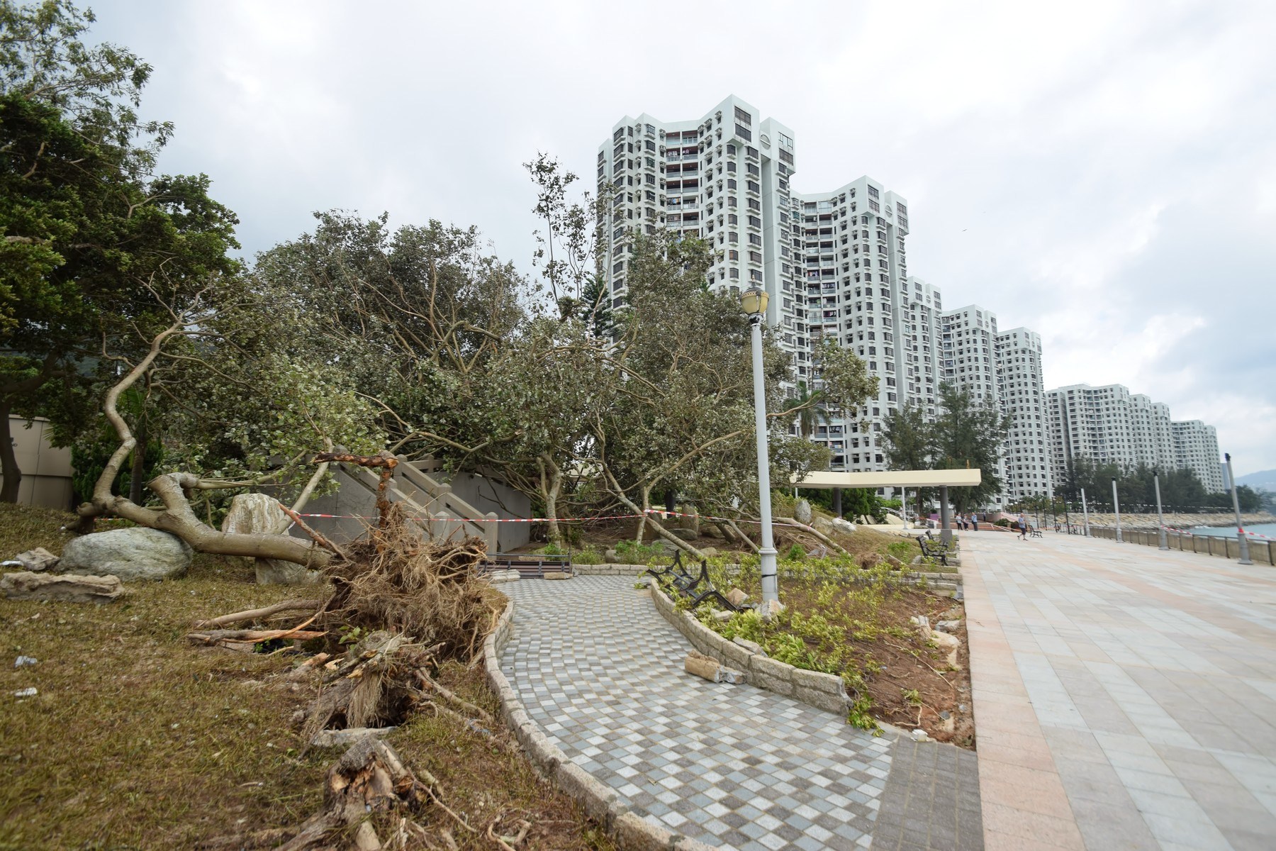 The waterfront of Heng Fa Chuen (Heng Fa Chuen Playground), after buffeting caused by Severe Typhoon Hato.